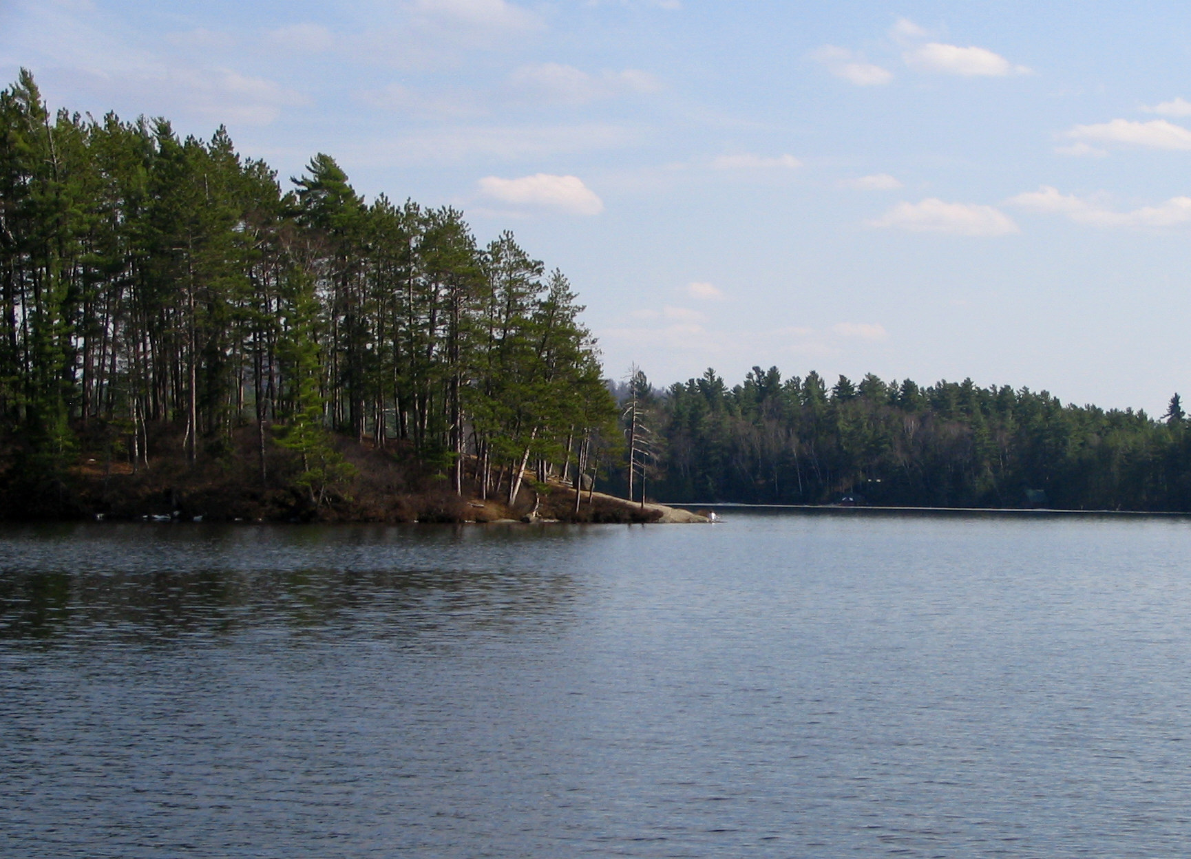 Lower St Regis Lake from Paul Smiths College